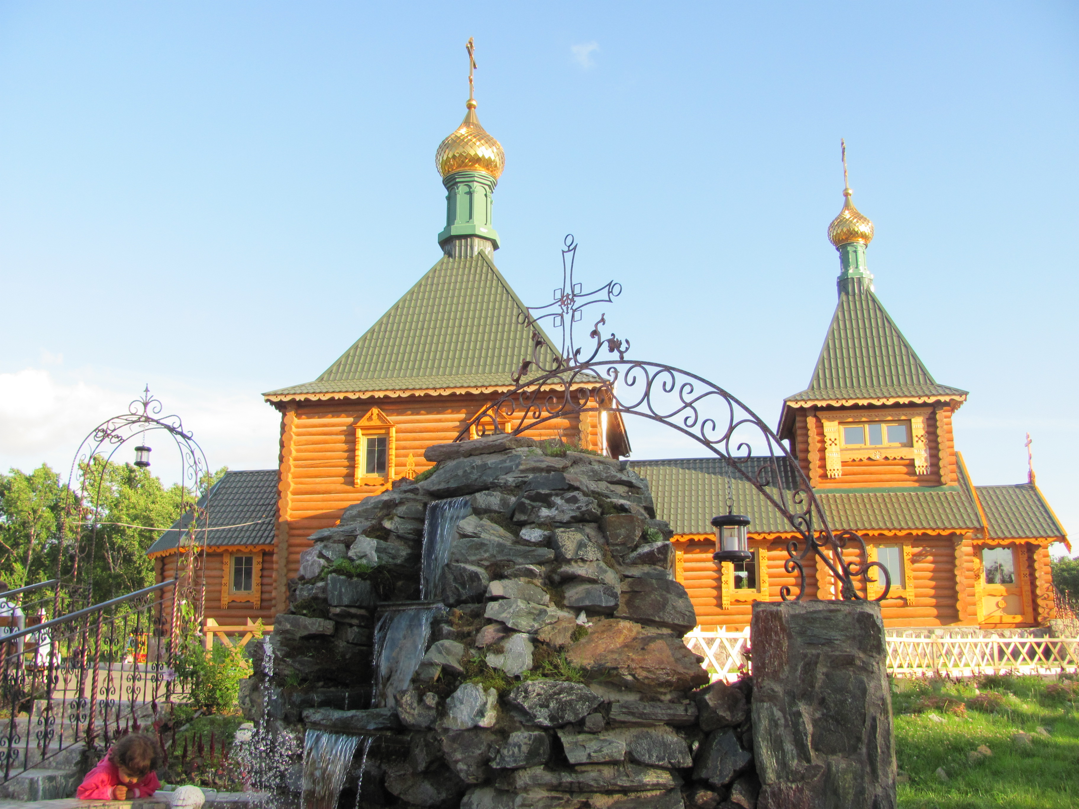 Church of holy hierarch Nicholas (Saint Nicholas) (Yuzhno-Sakhalinsk)